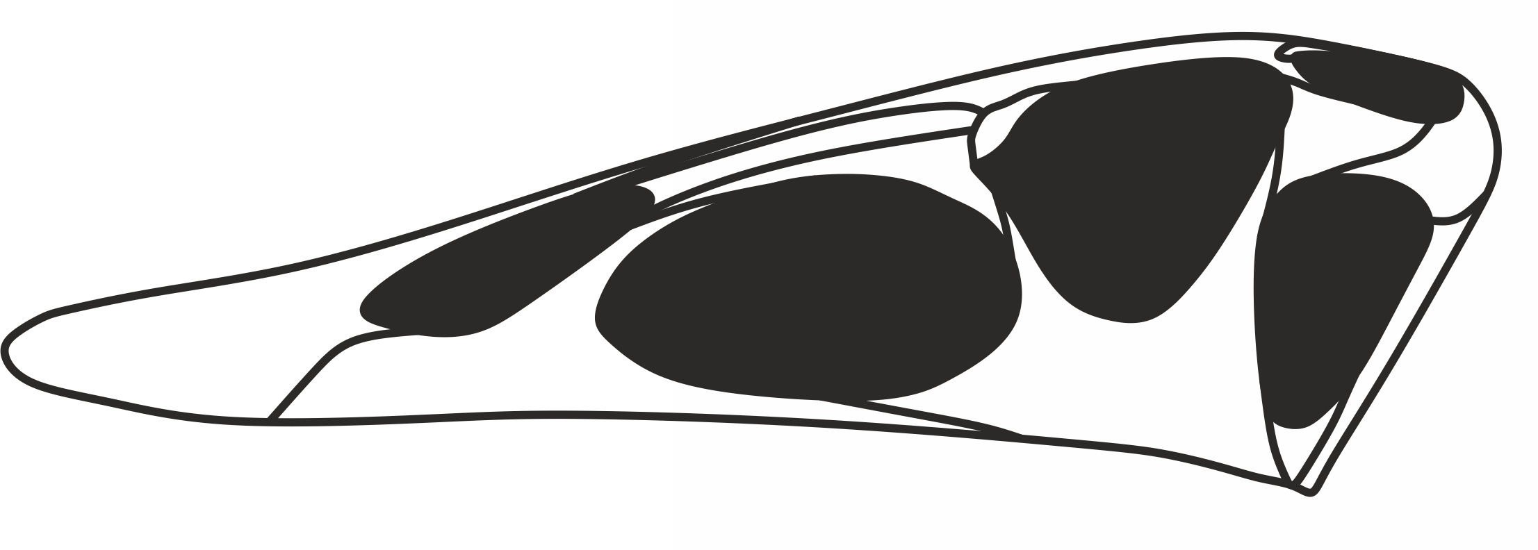 Reconstruction of the skull of Parapsicephalus purdoni, modified from published figure for wikimedia commons. Provided by author.